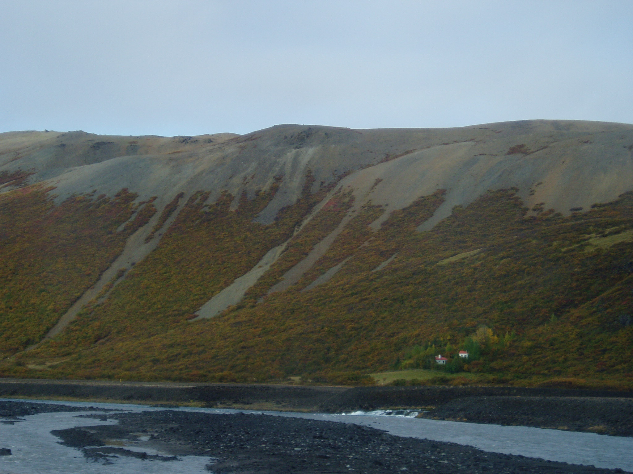 Very quiet once you get outside of Reykjavik